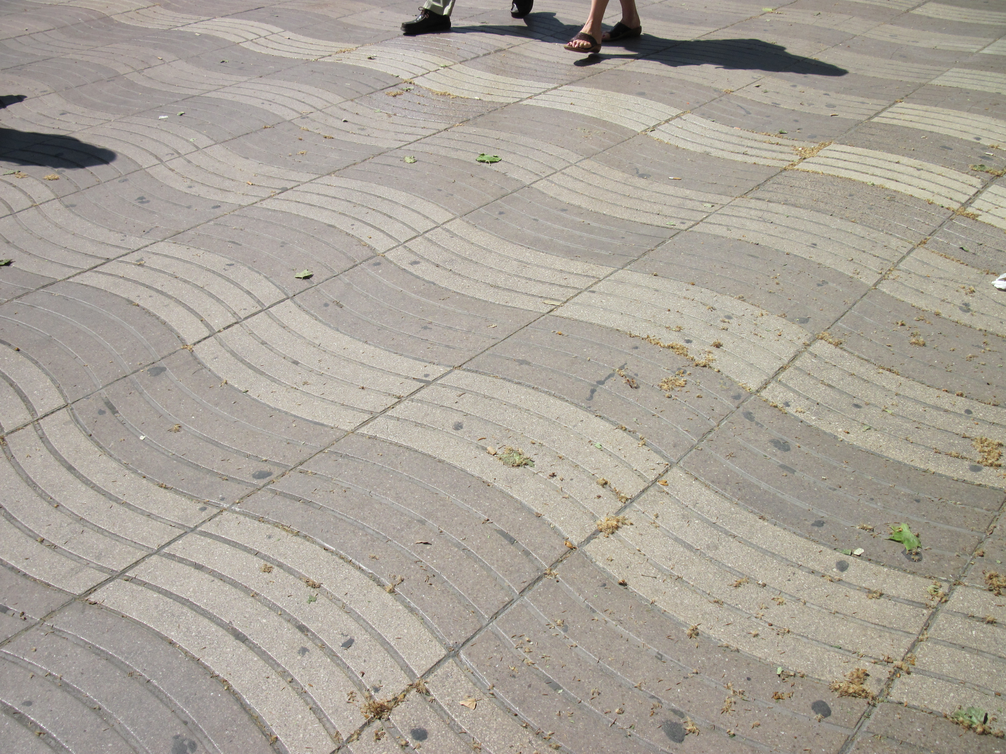 Rambla waves